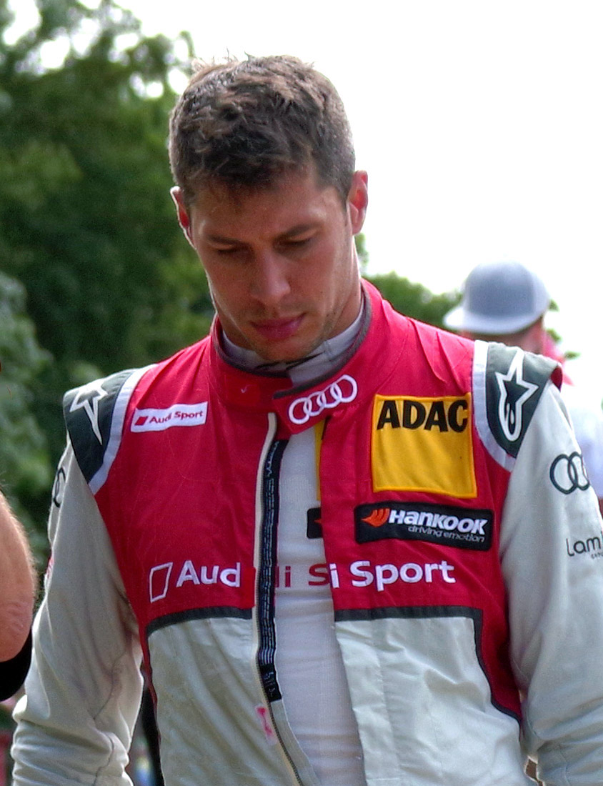 Loïc Duval, Brands Hatch 2018.